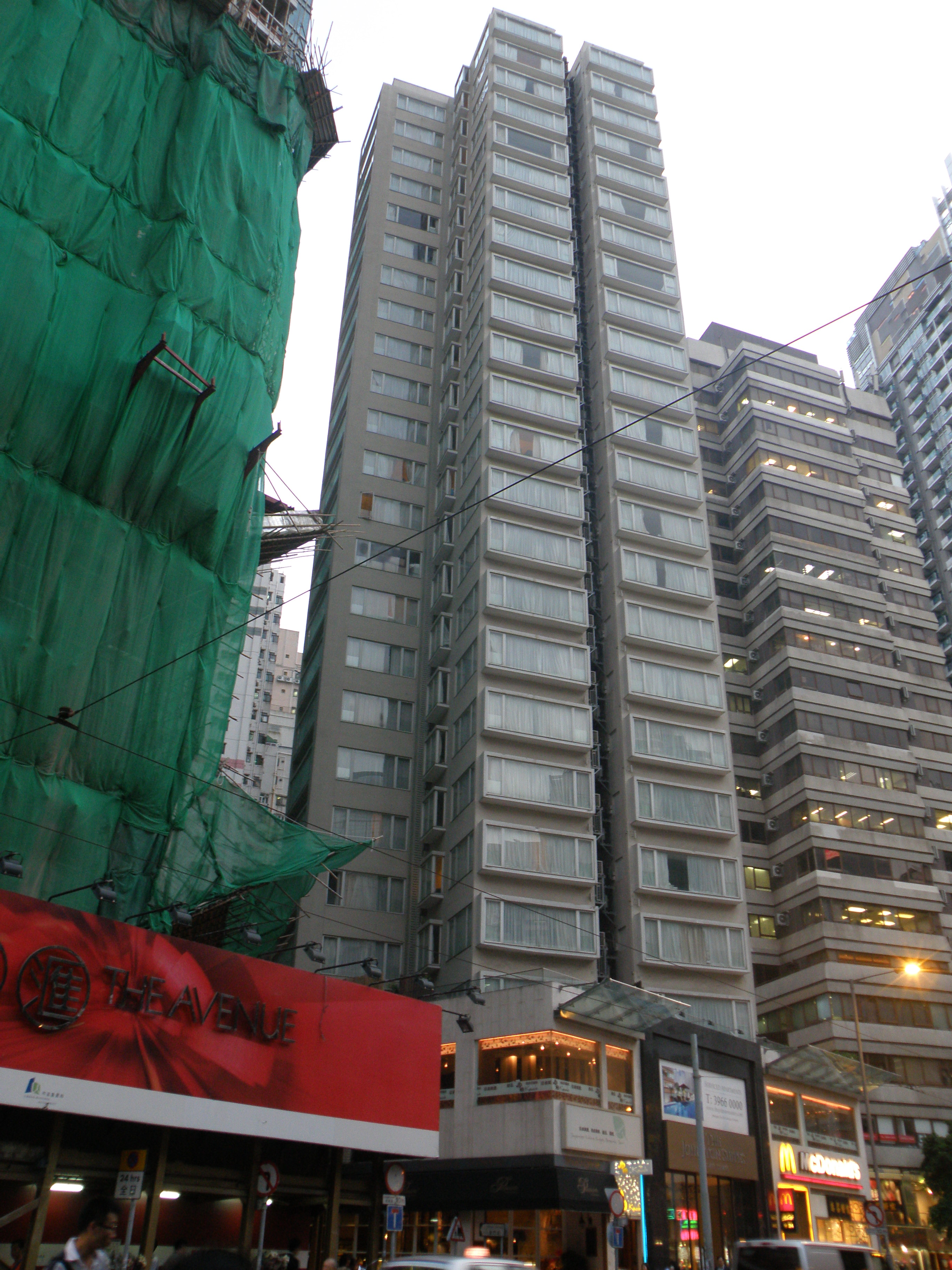 Fraser Suites, Wan Chai